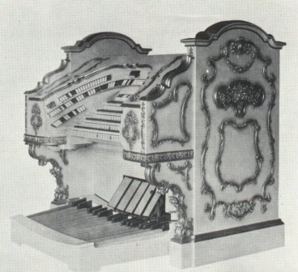 Wurlitzer organ in Seattle's Paramount Theatre